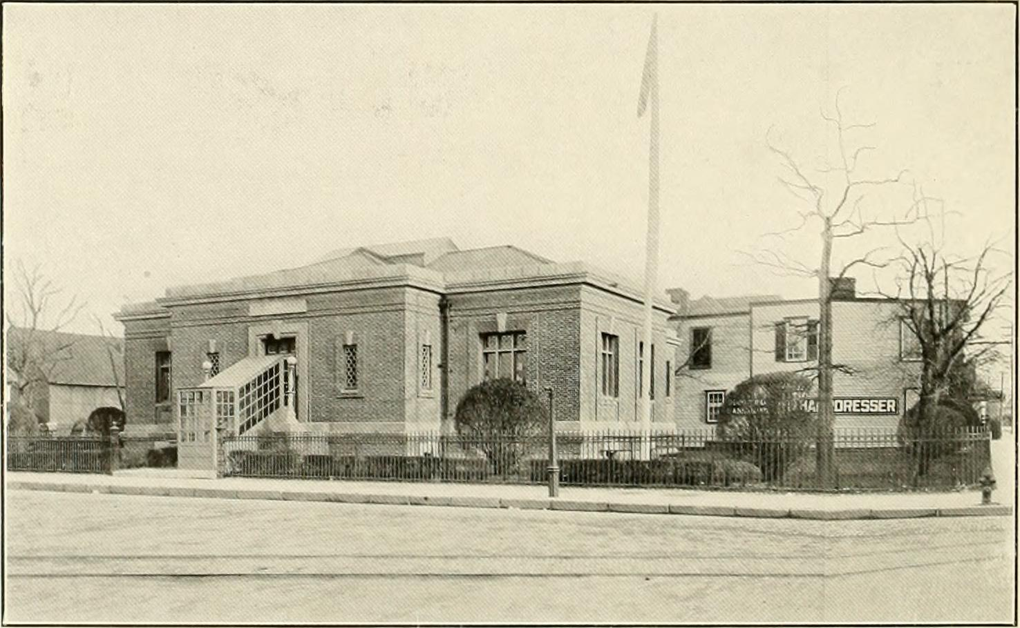 Title: Queens Borough; being a descriptive and illustrated book of the borough of Queens, city of Greater New York, setting forth its many advantages and possibilities as a section wherein to live, to work and succeed ... Issued by the Manufacturing and industrial committee of the Chamber of commerce of the borough of Queens; Year: 1913 (1910s) Authors: Chamber of Commerce (Queens, New York, N.Y.) Willis, Walter I., comp Subjects: Publisher: (Brooklyn, Brooklyn Eagle Press Text Appearing Before Image: Justness Section, Far Rockaway. 94 Chamber of Commerce of the Borough of Queens. Far Rockaway.The Belevedere, Broadway and Lockwood Avenue,Delevan House, H. Evans, White Street and Cornaga,Edgemere Hotel, Edgemere, L. I., Hotel Montauk, Jos. Jenny & Son, opp. Trolley Depot,Manhattan Hotel, G. Koenig, Prop., Central Aw, opp. Depot,New York Hotel, M. W. Burns, Greenwood Avenue,Tack-a-Pou-Sha, South Street. Flushing.Flushing Hotel, 84 Broadway, New York,Fountain House, J. F. Haubeil, 14 Main Street. Jamaica.Minden, Fulton and Washington,Roosevelt Hotel, Twombly Place. Little Neck.Douglas Manor Inn, Douglaston. Long Island City.The Arlington, 301 Jackson Avenue, Astoria Schuetzen Park, Broadway and Steinway Avenue,Millers Hotel, Borden Avenue. Whitestone.Garrison Hotel, Fort Totten. Text Appearing After Image: Public Library, Far Rockaway, Chamber of Commerce of the Borough of Oueens. 95 Public Libraries